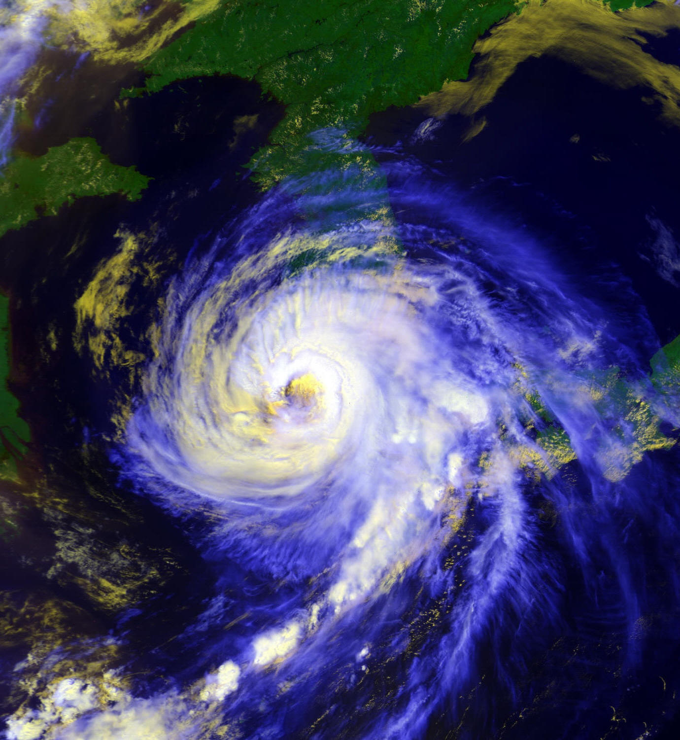 Typhoon Faye (1995)